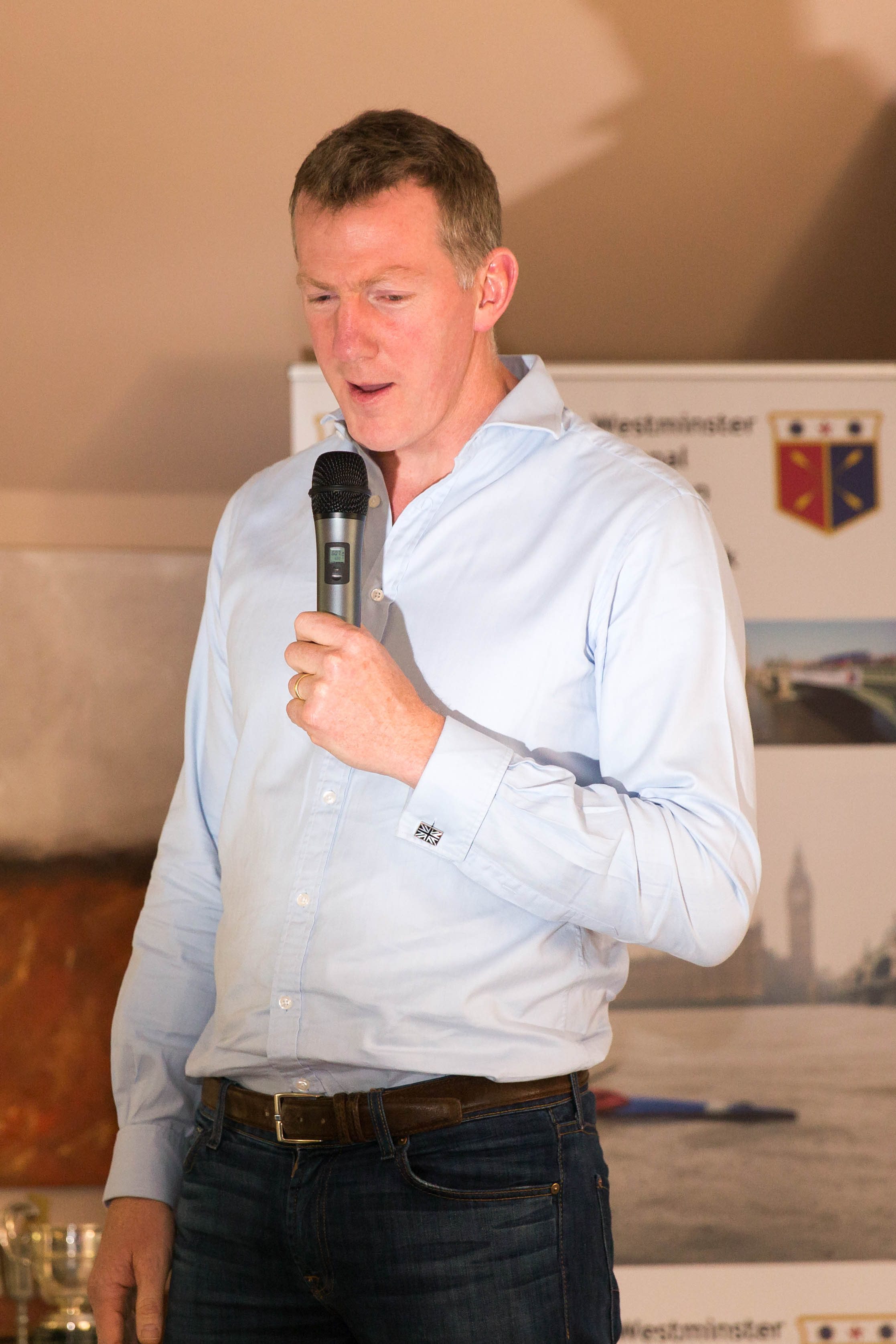 DW Prize Giving Ceremony